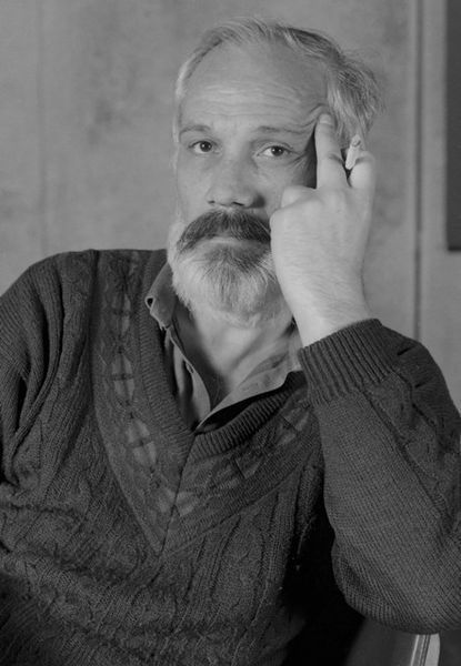 Image of Mirko Babic, actor of Knjaževsko-srpski teatar, City of Kragujevac, Serbia